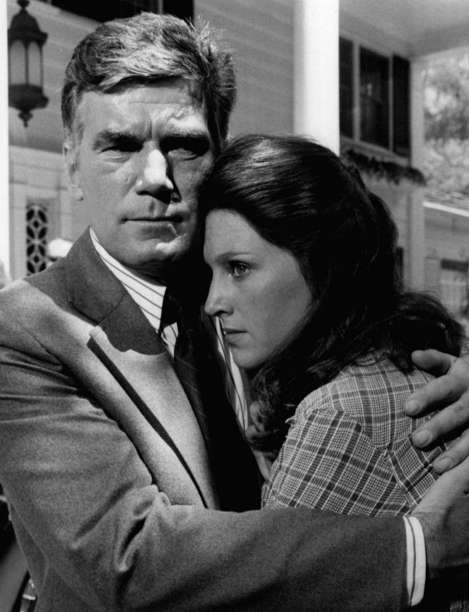 Photo of Mitchell Ryan and Wendy Phillips from the short-lived television program Executive Suite.